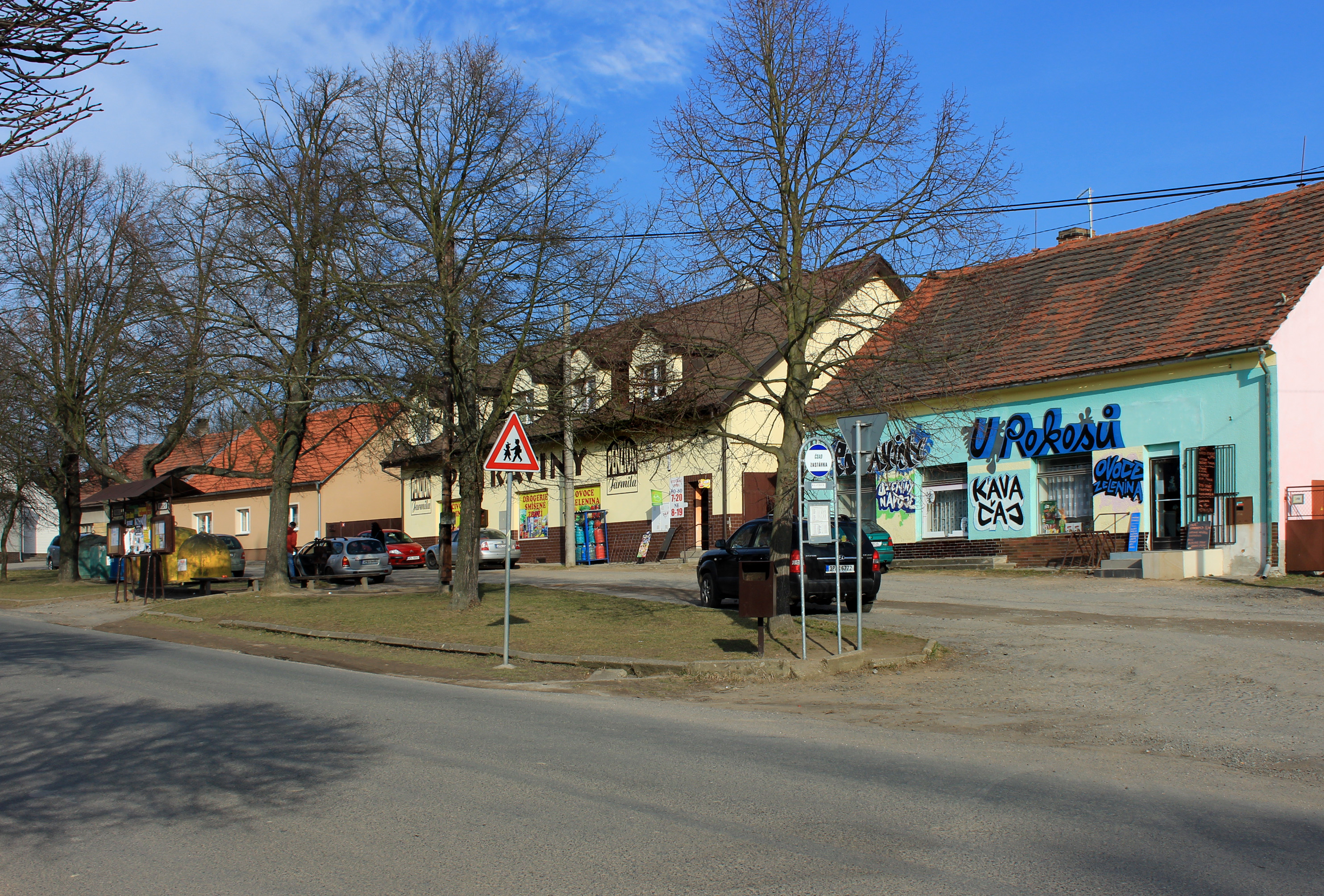 Two shops in Blatnice, Czech Republic.